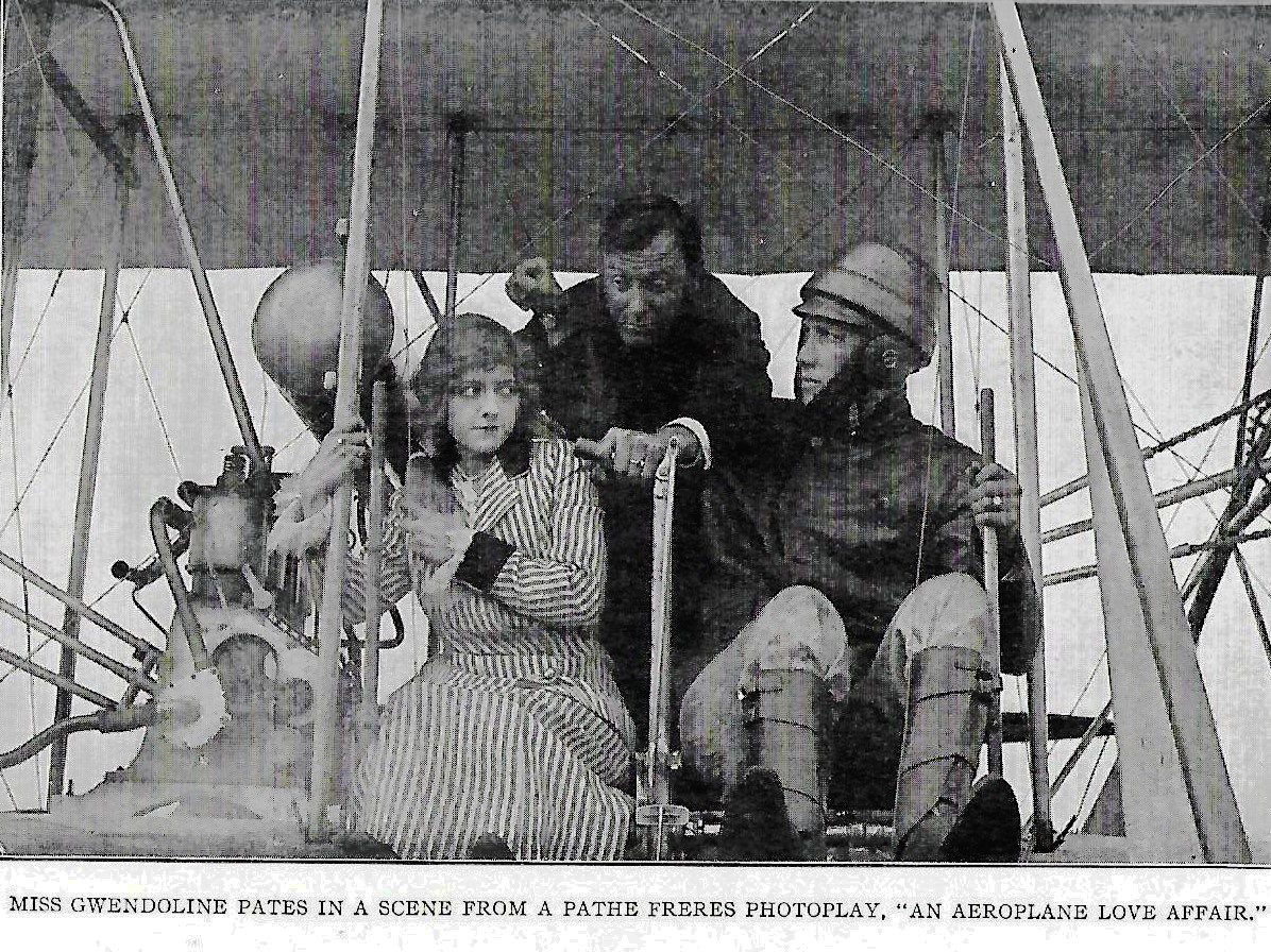 Gwendolin Pates, from An Aeroplane Love Affair (1912), from a 1913 book